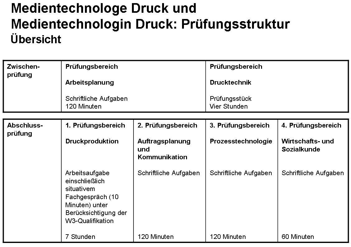 Overview of the examination structure of the dual vocational training "Medientechnologe Druck"